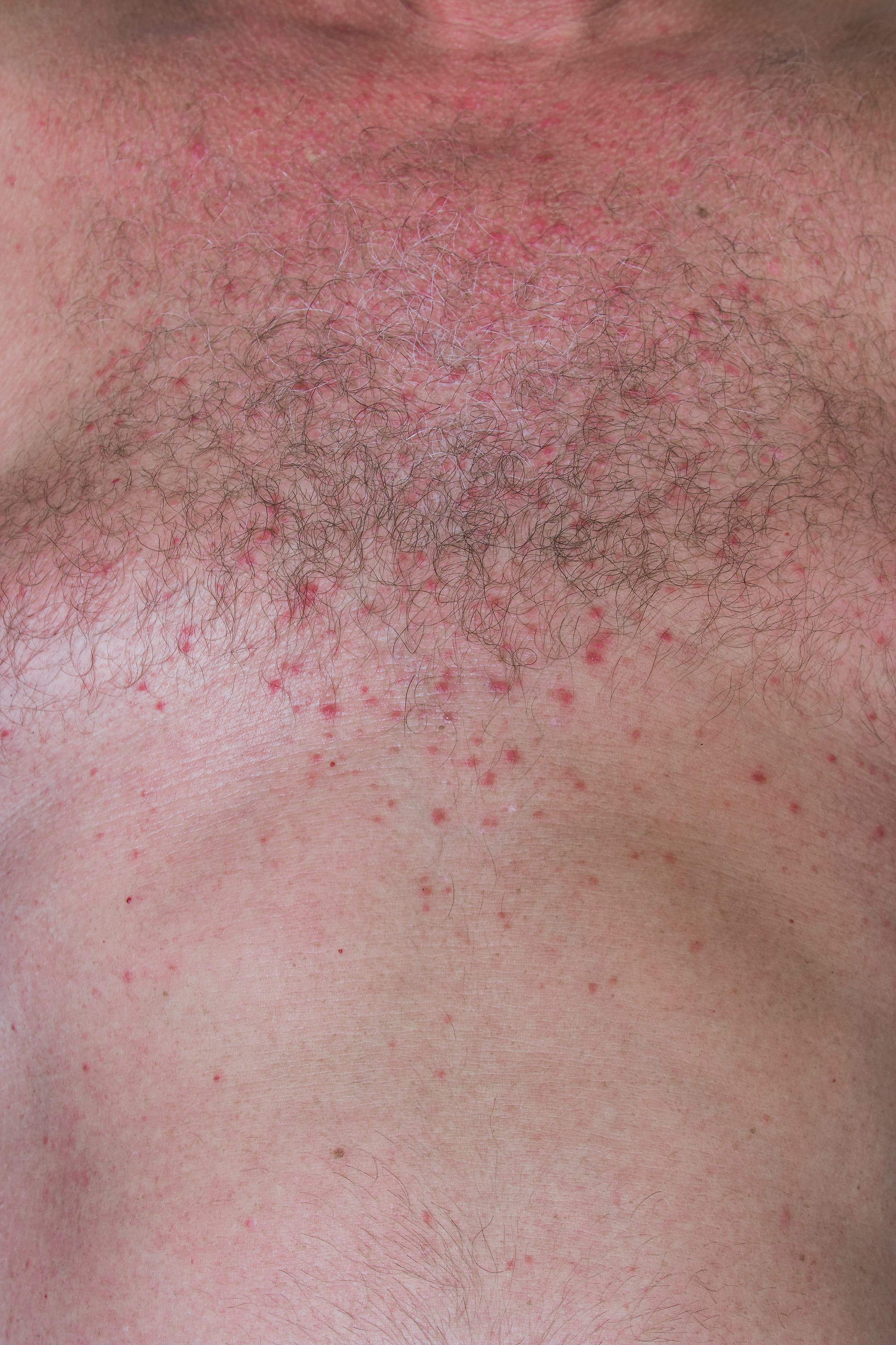 Red miliaria. Rashes in the form of red bubbles and nodules on the chest of an adult man in the event of red miliaria. Irritation of the skin in the neck.